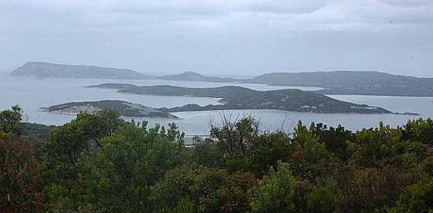 VIEW FROM THE TOP OF MT. CLARENCE in Albany, Western Australia